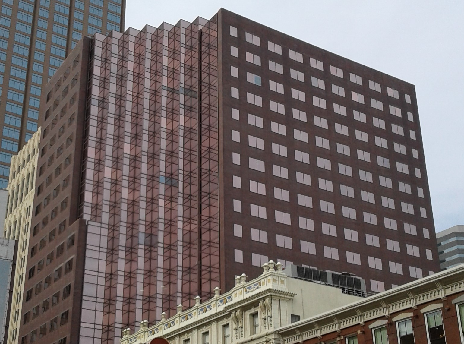 Facade of Pacific Place building in downtown Dallas